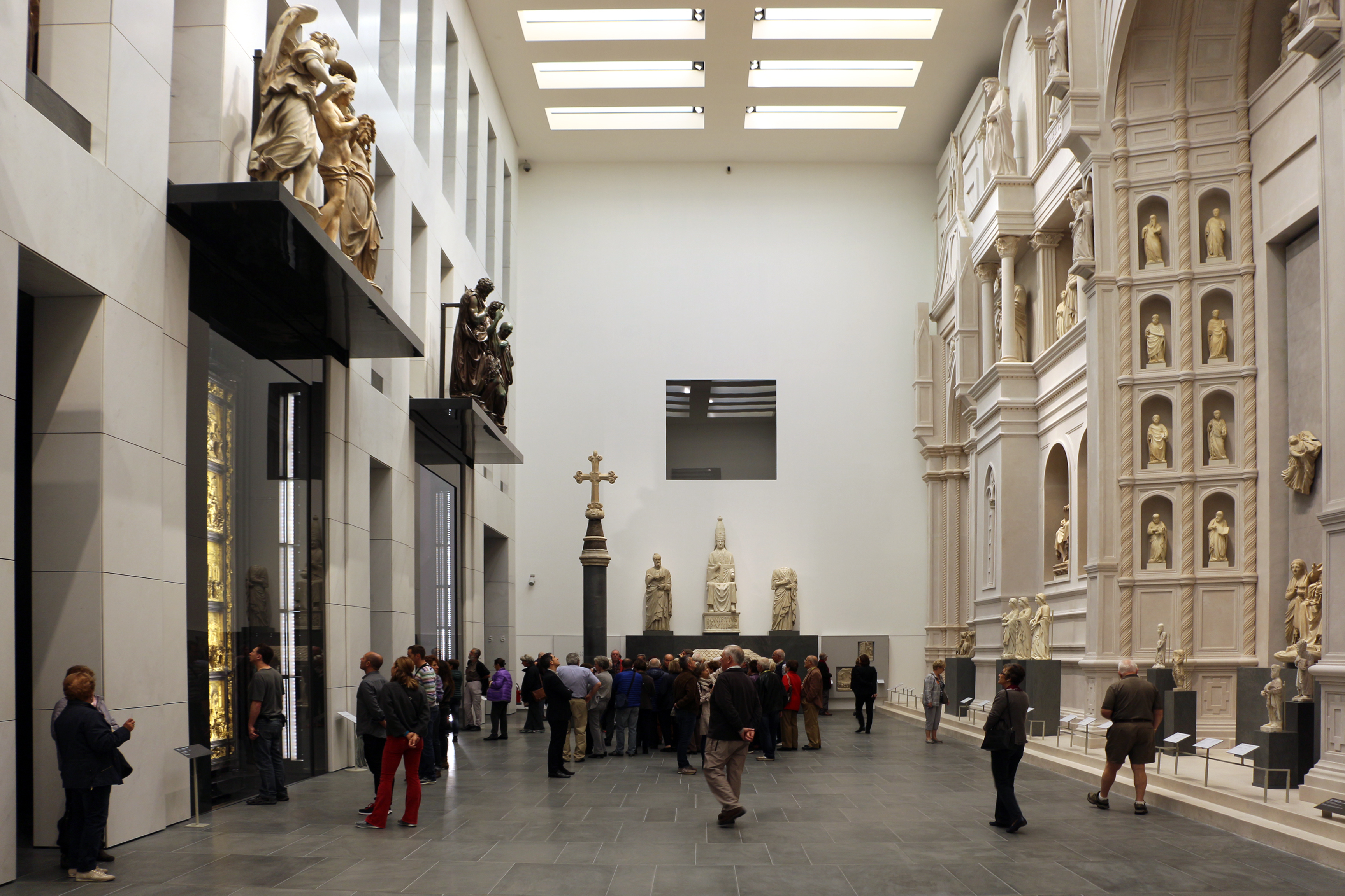 Museo dell'Opera del Duomo (Florence)